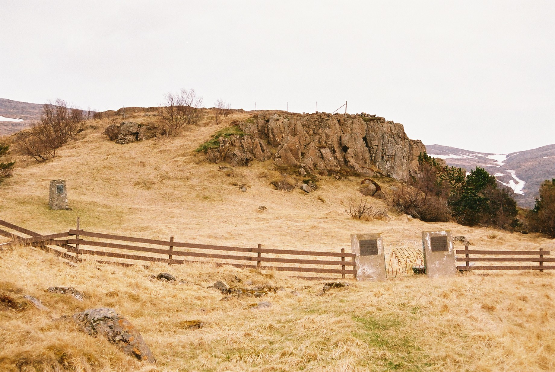 Klofningur, Breiðafjörður, Iceland